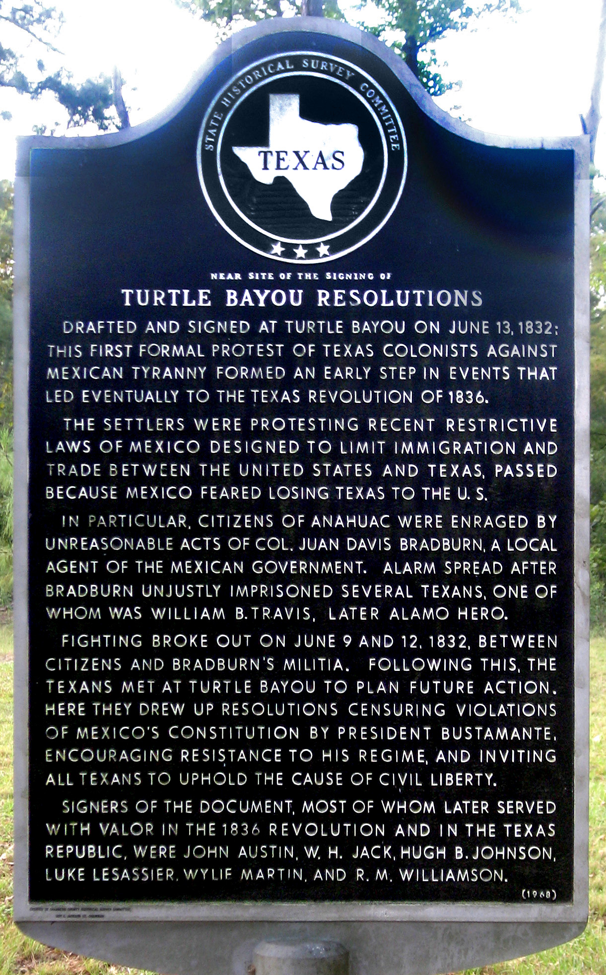 The Turtle Bayou Resolutions were the first formal protest by Texas colonists of Mexican tyranny. It was a first step that led eventually to the Texas Revolution of 1836.